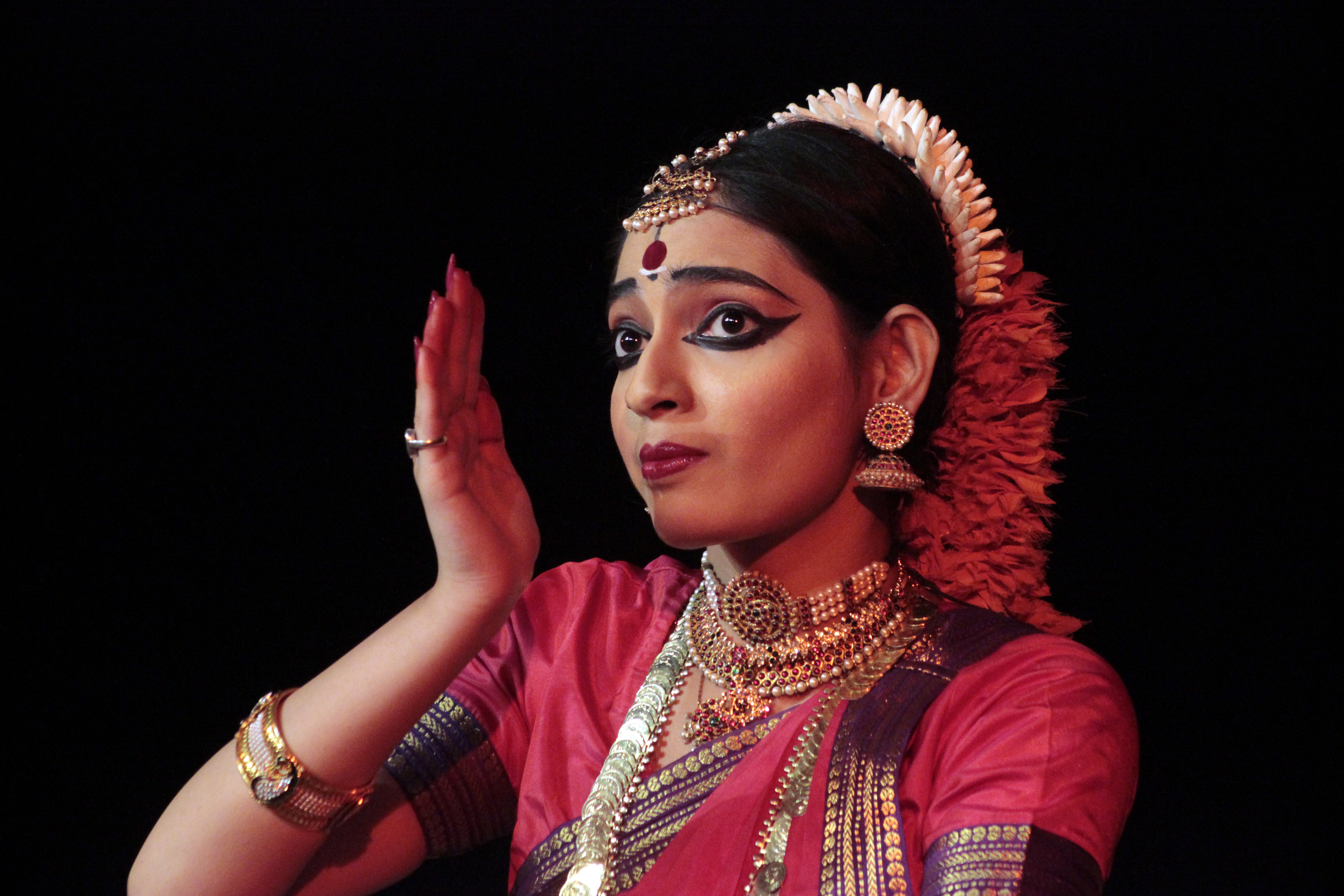 Bharatnatyam different facial expressions